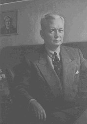 Governor Sherman Adams. From